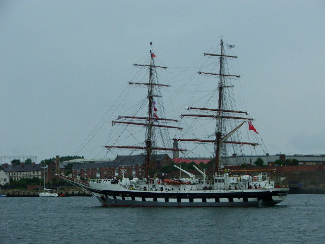 Prince William